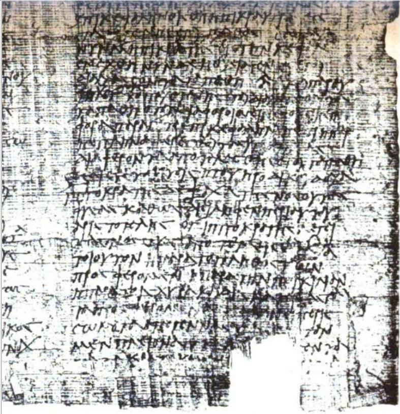 Anonymus Londinensis papyrus (ca. 1st century AD), from the plate printed in Supplementum Aristotelicum III.1 (1893).